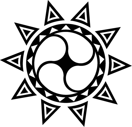 Solar symbol of the Native Polish Church